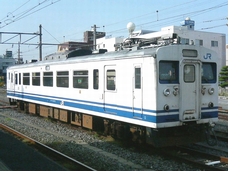 JR West 123 series EMU car KuMoHa 123-3 at Ube-Shinkawa Station